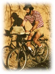 Paul Ginsparg is physicist and founder of the e-print archive.